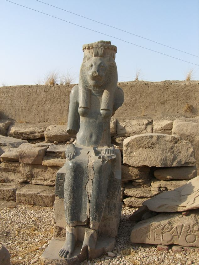 Statue of Sekhmet inscribed with cartouches of Shoshenq I - Karnak temple of Mut - 22nd dynasty of Egypt